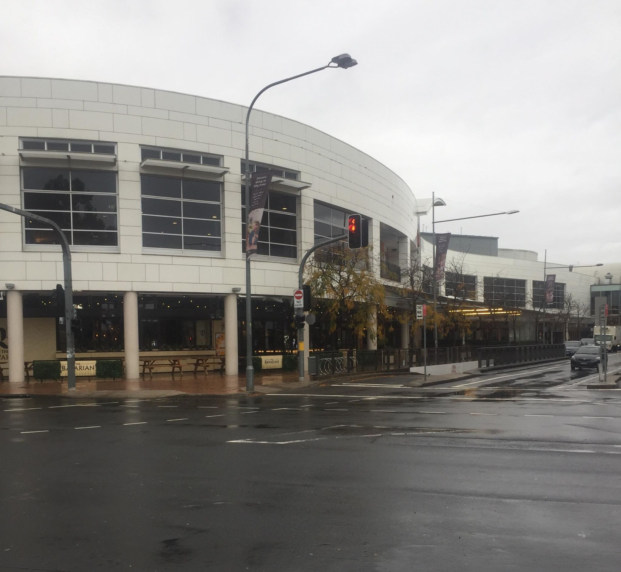 Photograph of Westfield plaza Penrith from Station Street